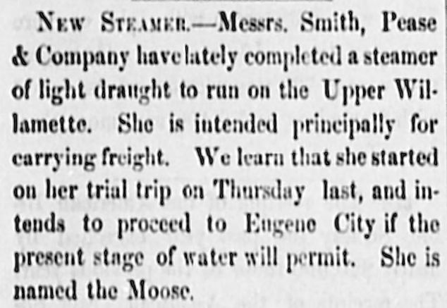 Moose, steamer, newspaper article reporting completion and trial trip.